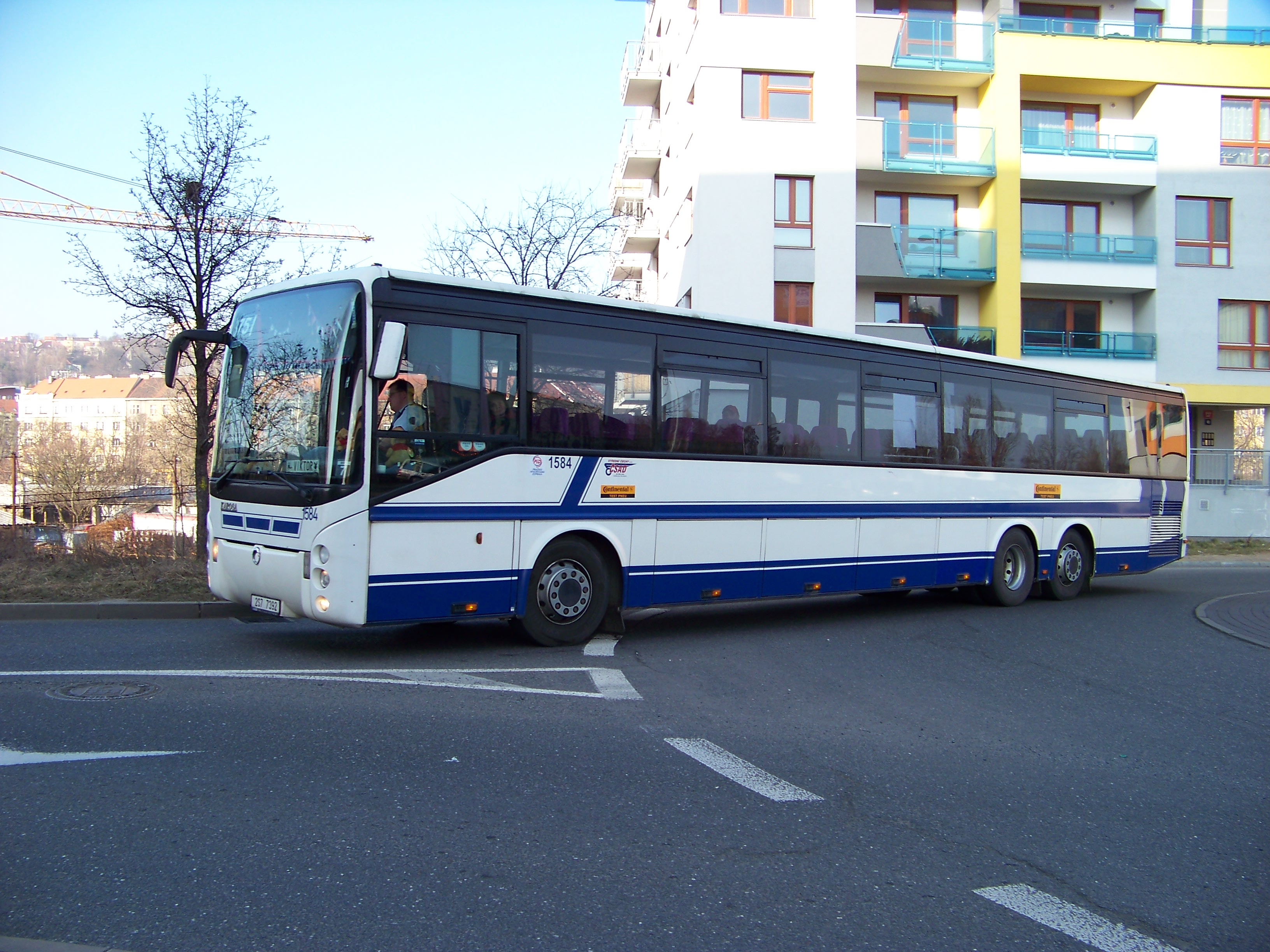 Prague-Vysočany, the Czech Republic. Ocelářská street, a bus Irisbus Ares of ČSAD Střední Čechy.